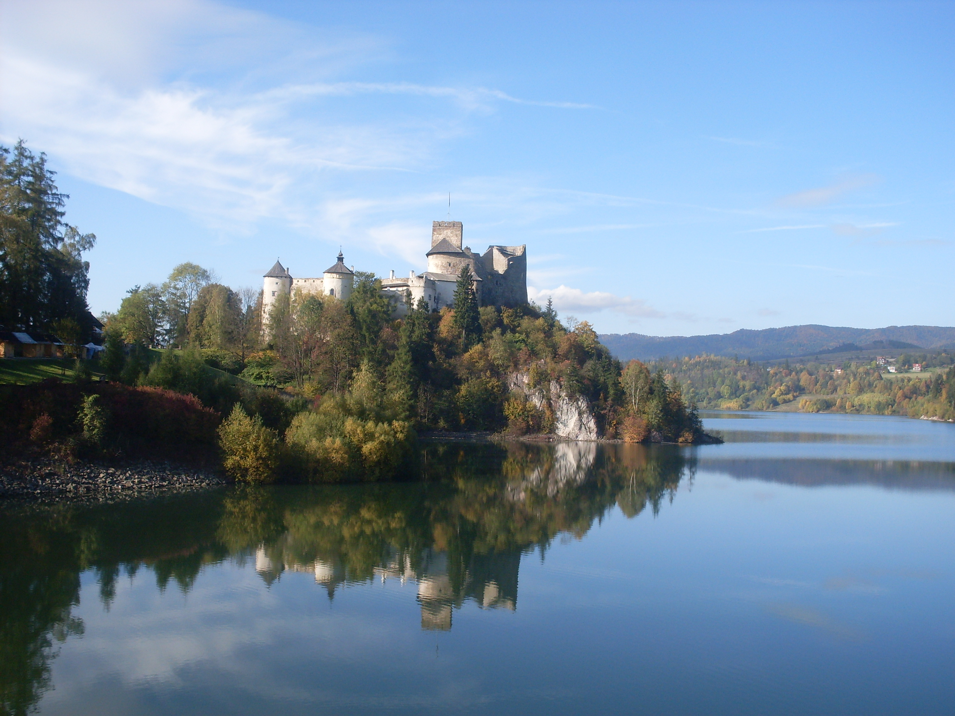 Castle Niedzica in Poland